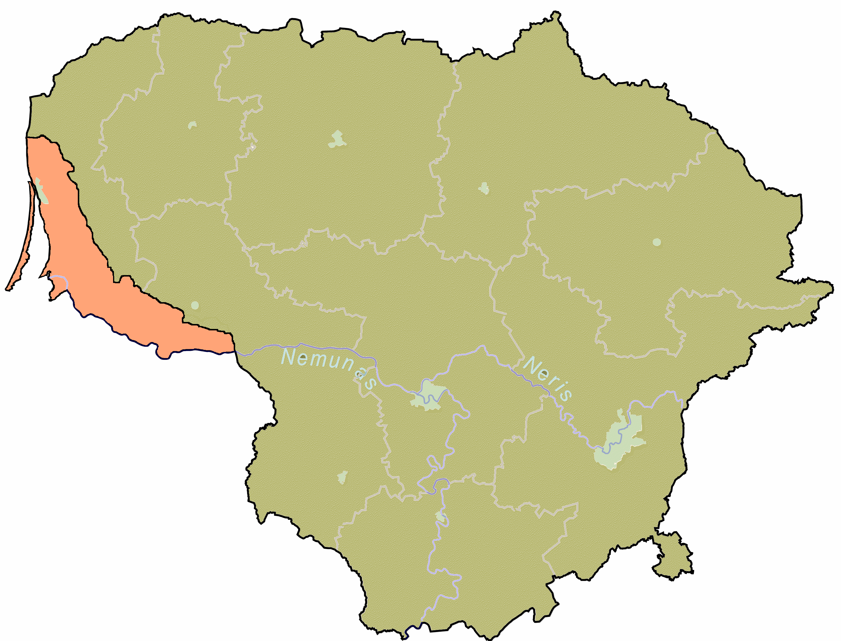 Location of the Memel territory (Memelland) within Lithuania